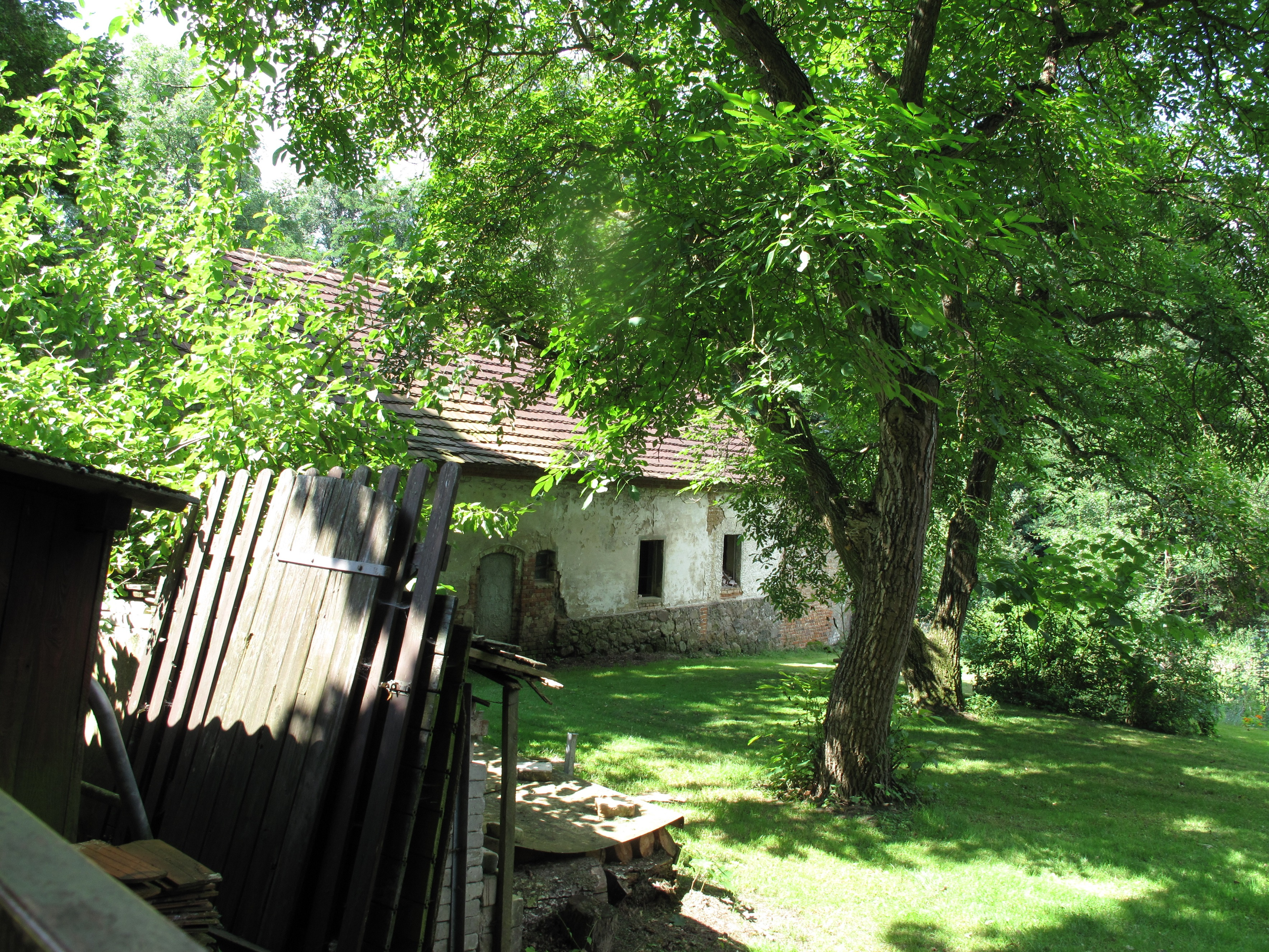 Former Grundmühle, one of the three historical watermills of the Blabbergraben, at the southern shore of the Lindenberger See. The mill was pulled down in 1927, its area is still inhabited. The Lindenberger See is a lake in the village Lindenberg, a part (german: Ortsteil) of the municipality Tauche in the District Oder-Spree, Brandenburg, Germany. The lake covers 6 hectare. The long-drawn groove lake is, seen from the north, the second water of a five-part chain of lakes, which is connected by the Blabbergraben. The Blabbergraben drains the lakes to the south into the river Spree.